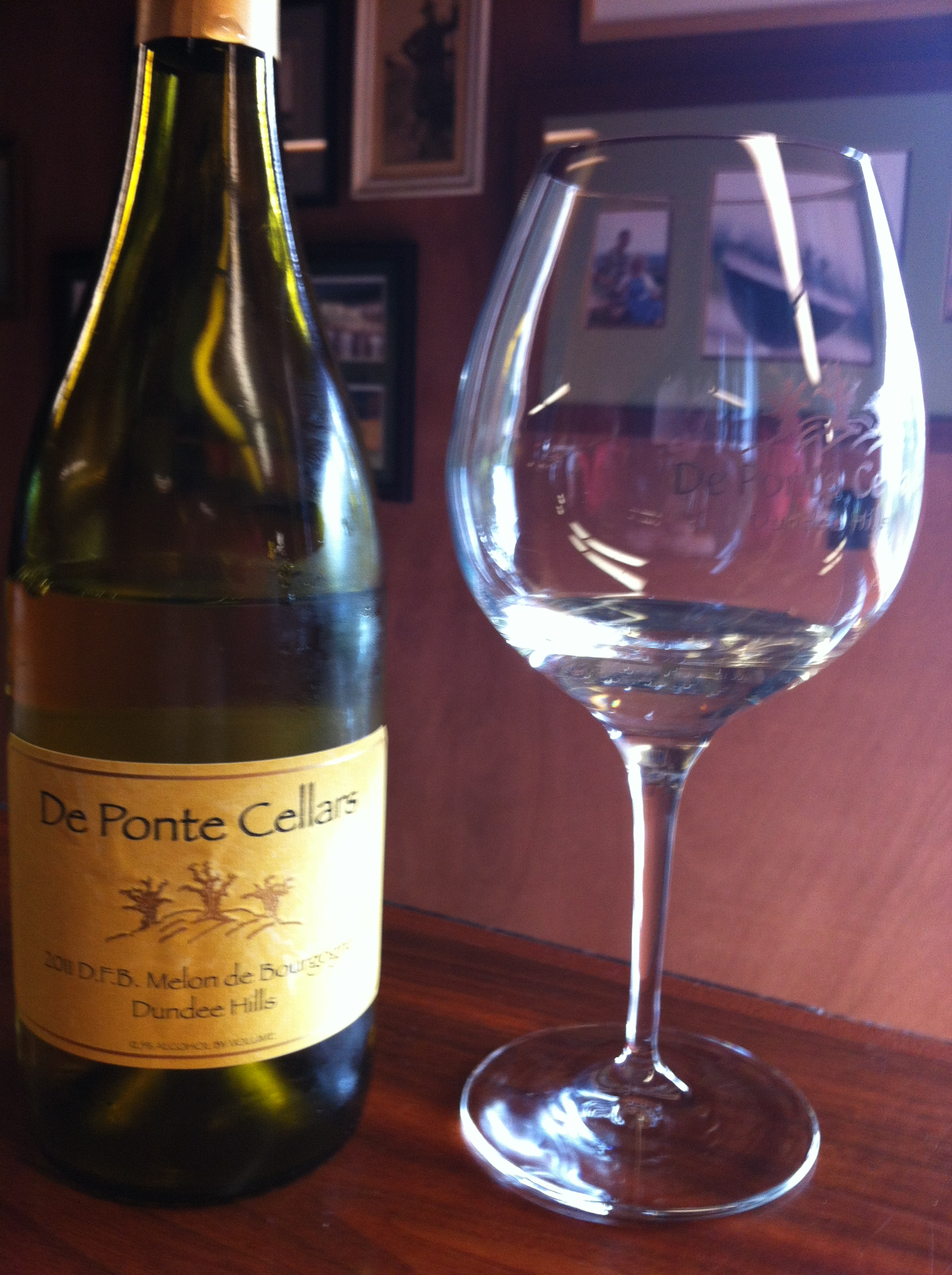 From De Ponte Vineyards in the Red Hills of Dundee AVA in the Willamette Valley of Oregon